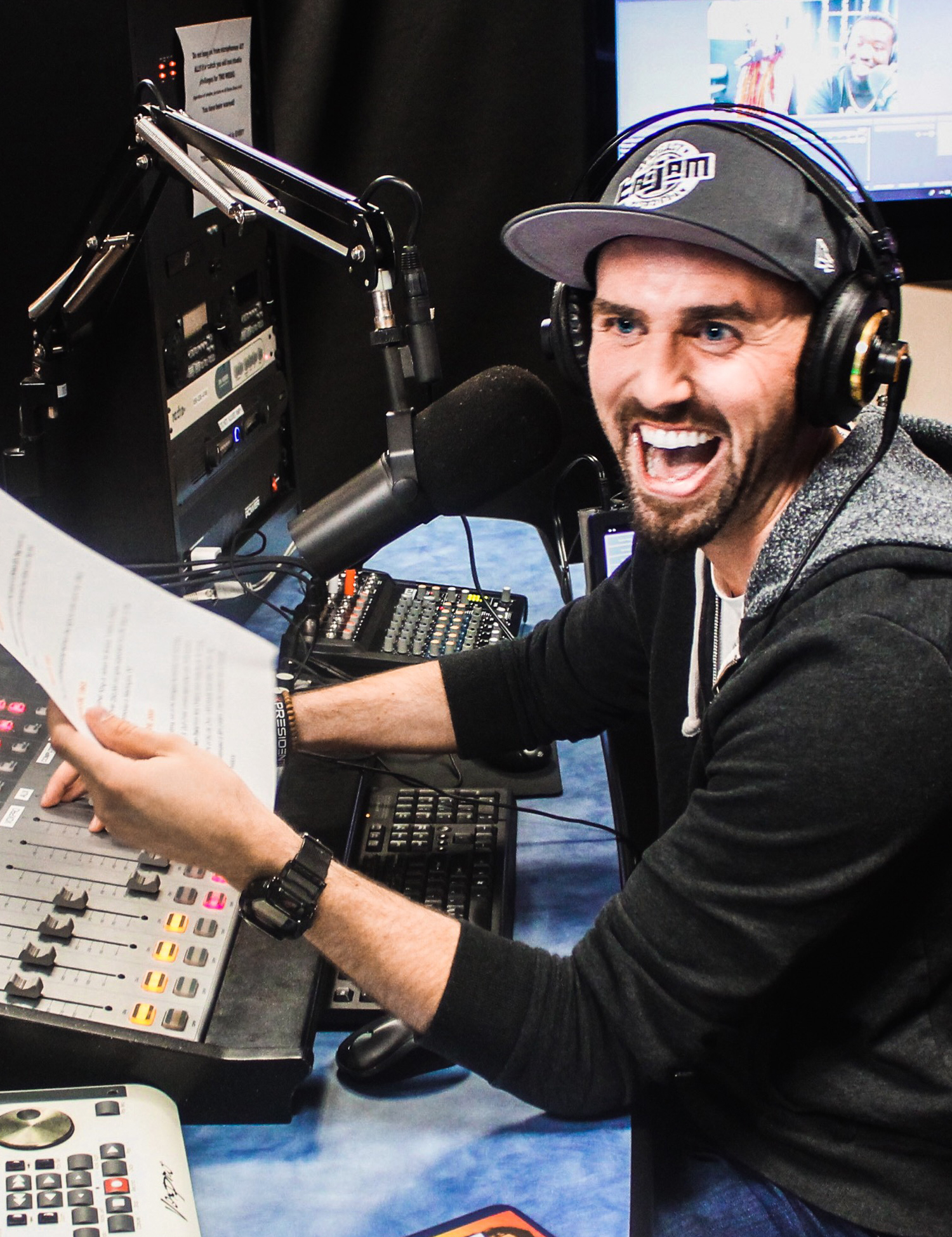 Maack hosting TriJam Podcast